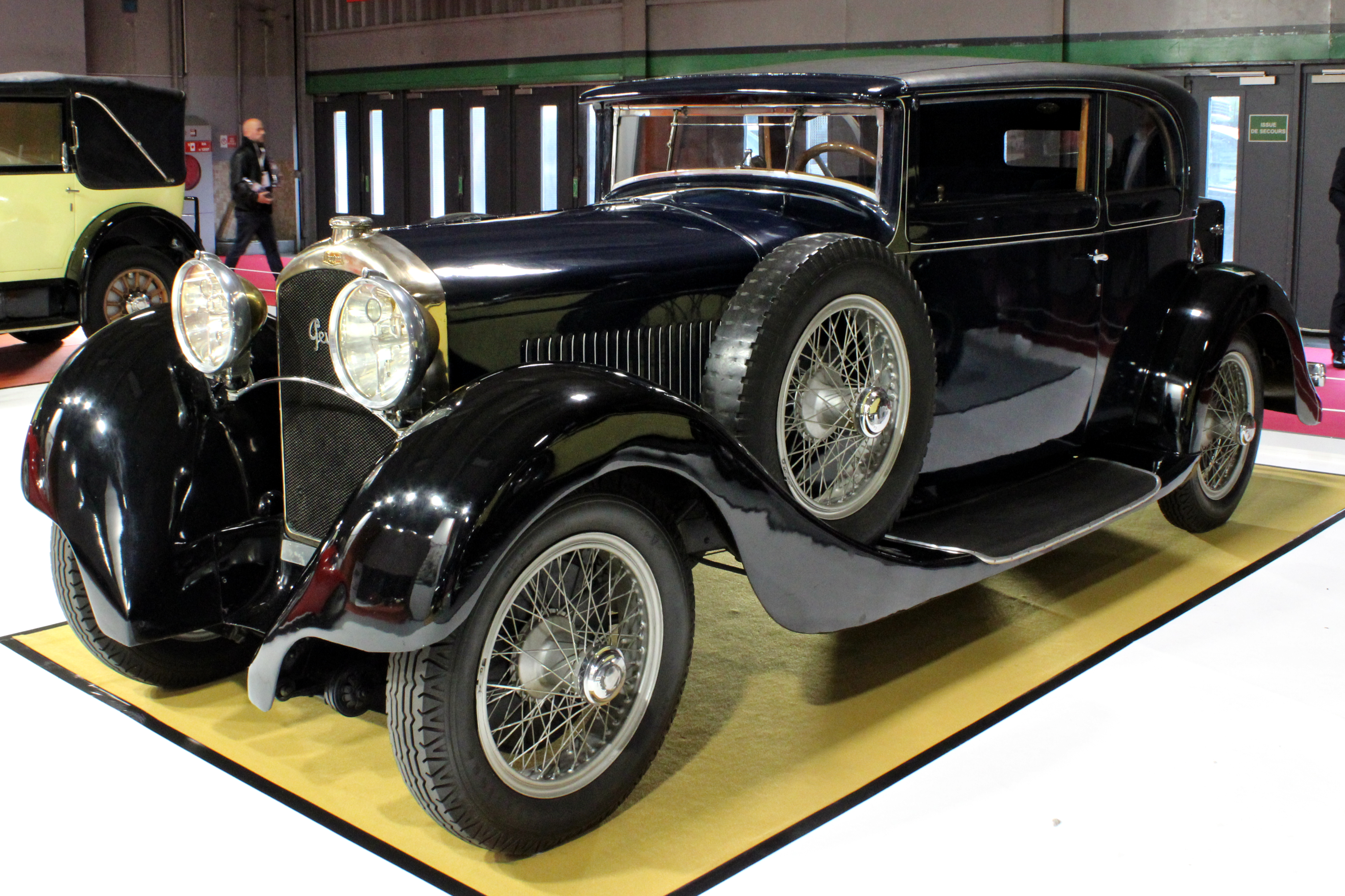 Peugeot 174 (1924) at Paris Motor Show 2018